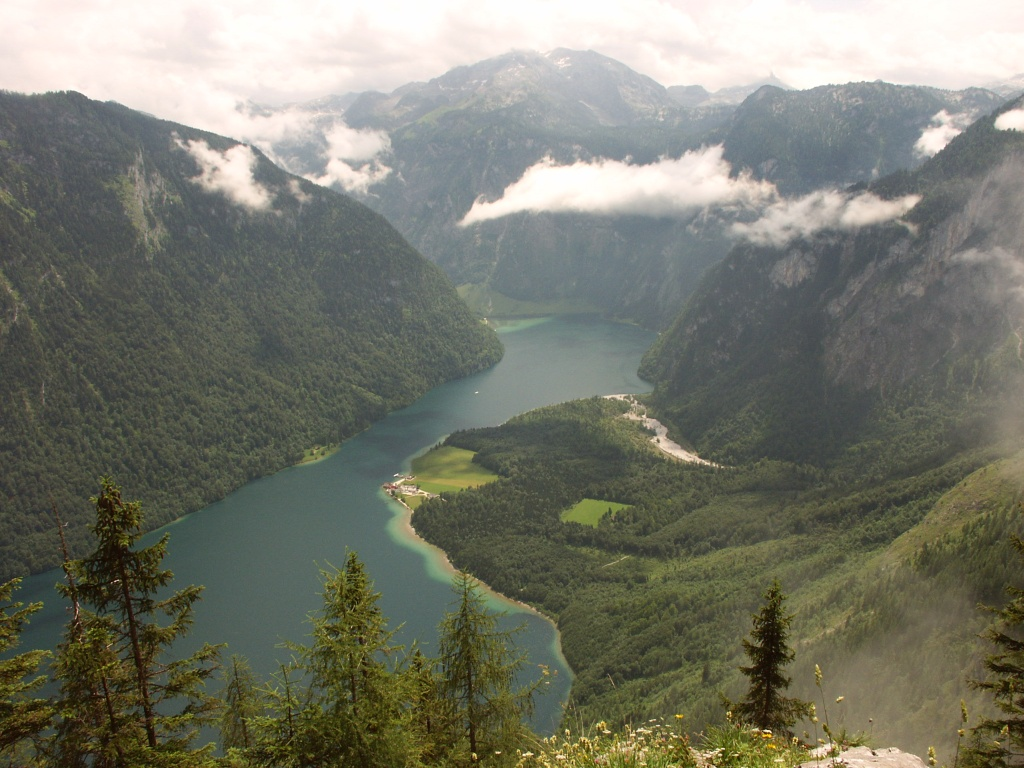 Southern half of Lake Königsse as seen from Archenkanzel vista point, shortly after a thunderstorm. The small flat area in the center of the picture represents the vegetated alluvial fan of the Eisbach creek with the St-Bartholomew’s chapel.